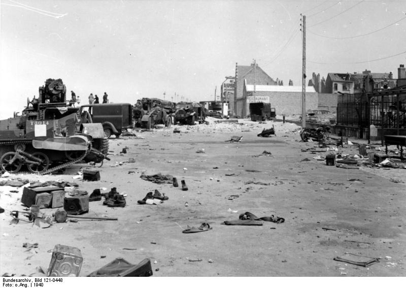 Reste am Strand Information added by Wikimedia users.Bren Gun Carrier (original)